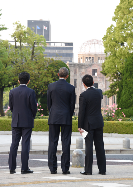 Barack Obama, President, viewed Hiroshima Peace Memorial with Shinzō Abe, Prime Minister, and Fumio Kishida, Minister for Foreign Affairs at Hiroshima Peace Memorial Park in Hiroshima City, Hiroshima Prefecture on May 27, 2016.